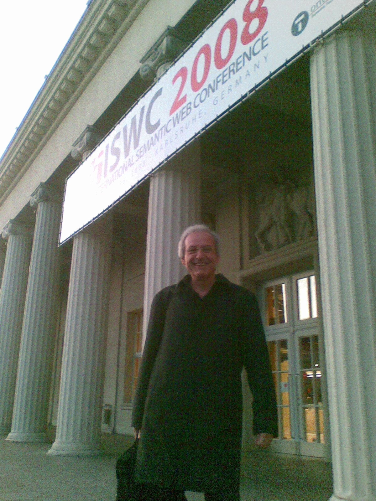 Rudi in front of Karlsruhe Congress Center at the evening before ISWC 2008 started